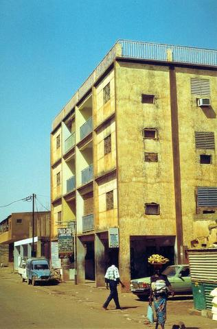 house in central ouagadougou, burkina faso